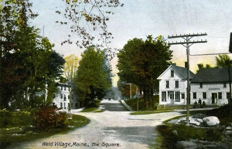 The Square, Weld Village, Maine